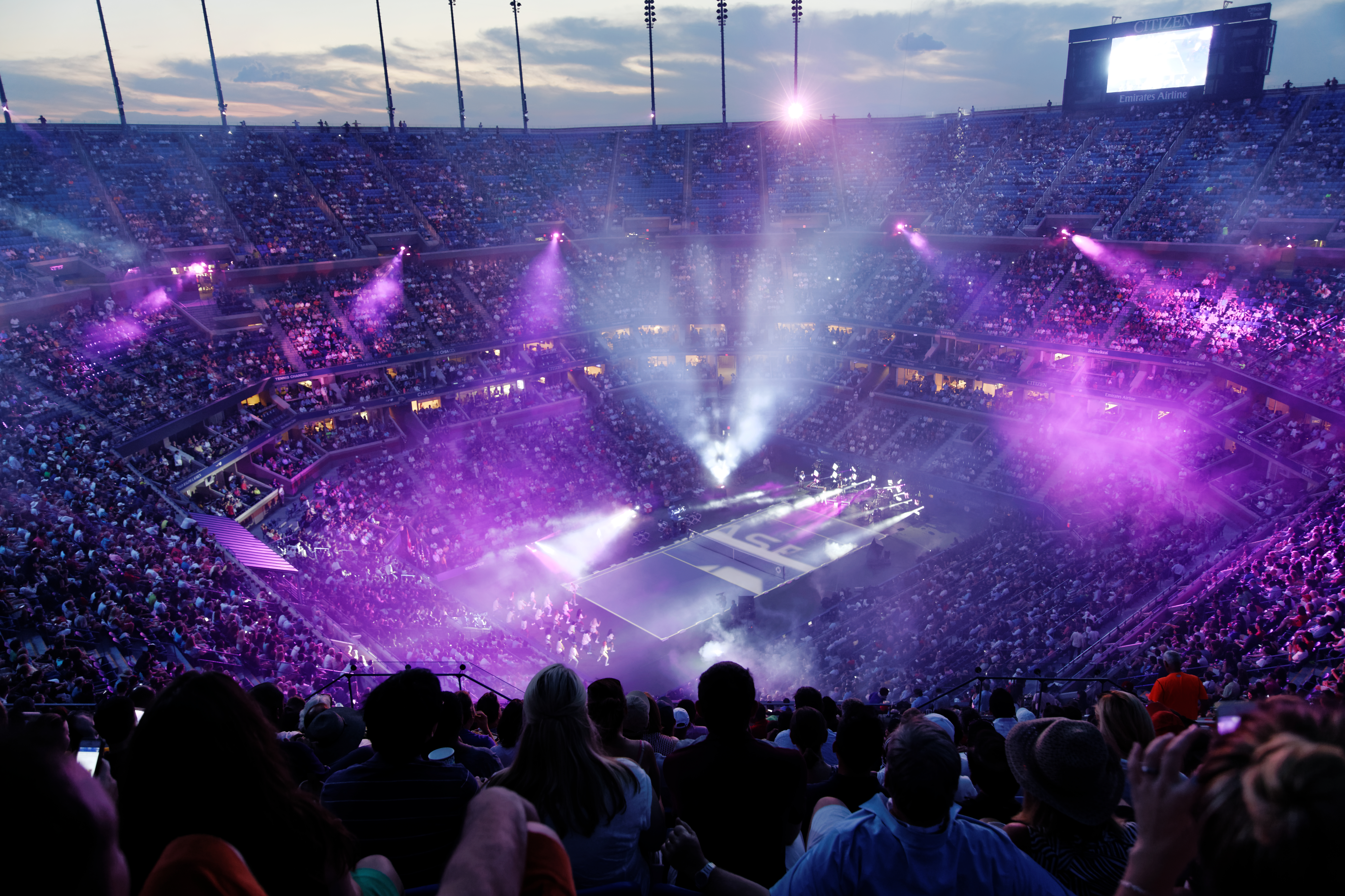 The 2014 US Open is a tennis tournament played on the outdoor hard courts. It is the 134th edition of the US Open, the fourth and final Grand Slam event of the year. It is currently taking place at the USTA Billie Jean King National Tennis Center. Roger Federer Ana Ivanovic Bill Diblasio David Dinkins Martina Navratilova